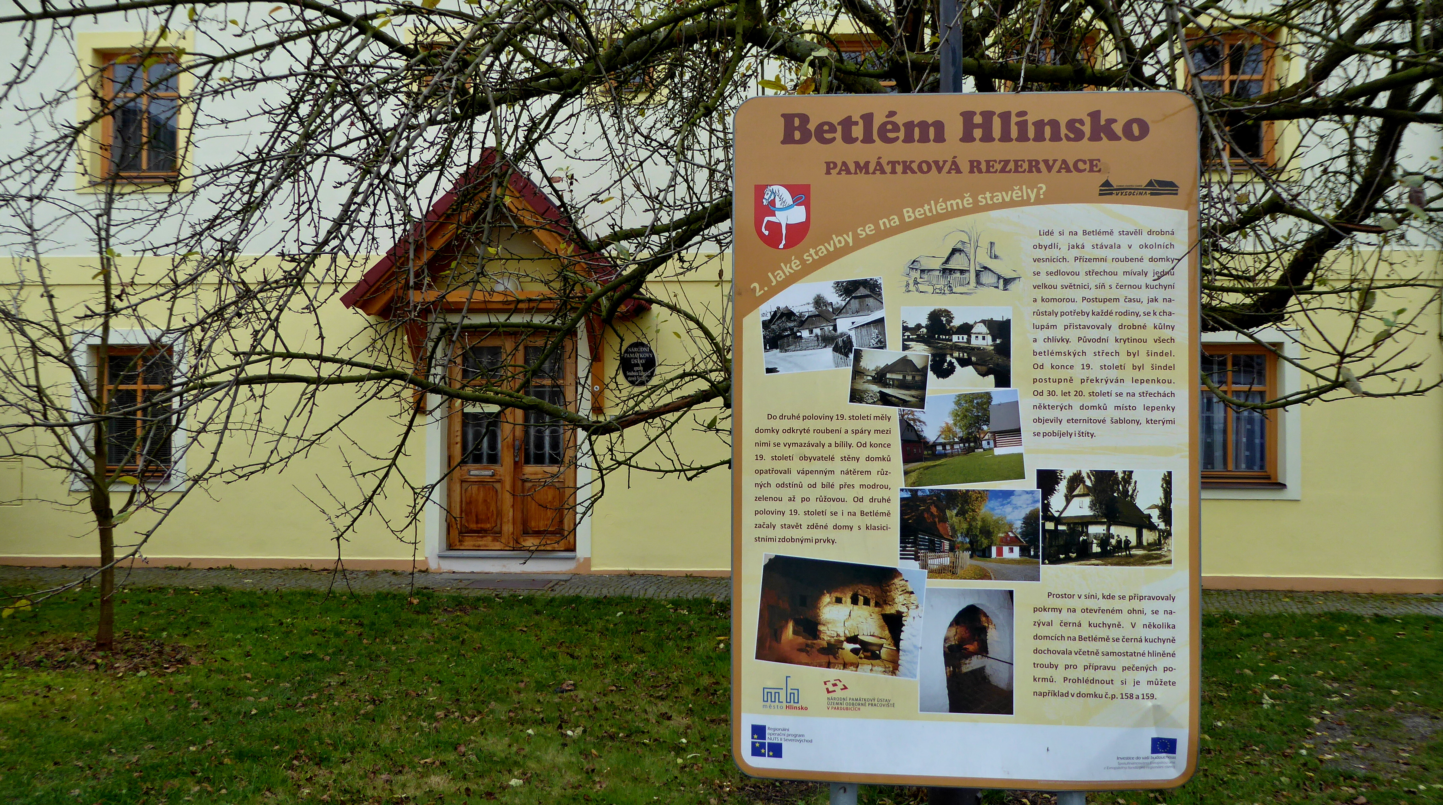 National Heritage Institute of the Czech Republic - Set of folk buildings Vysočina, the entrance to the building Administration of museum located in Hlinsko, Příčná street No. 350. In front of the information board building at the road to the Betlem monument reserve. Photo-location: Czechia, Pardubice Region, town Hlinsko, Betlém Monument Reservation (azimuth 195°).